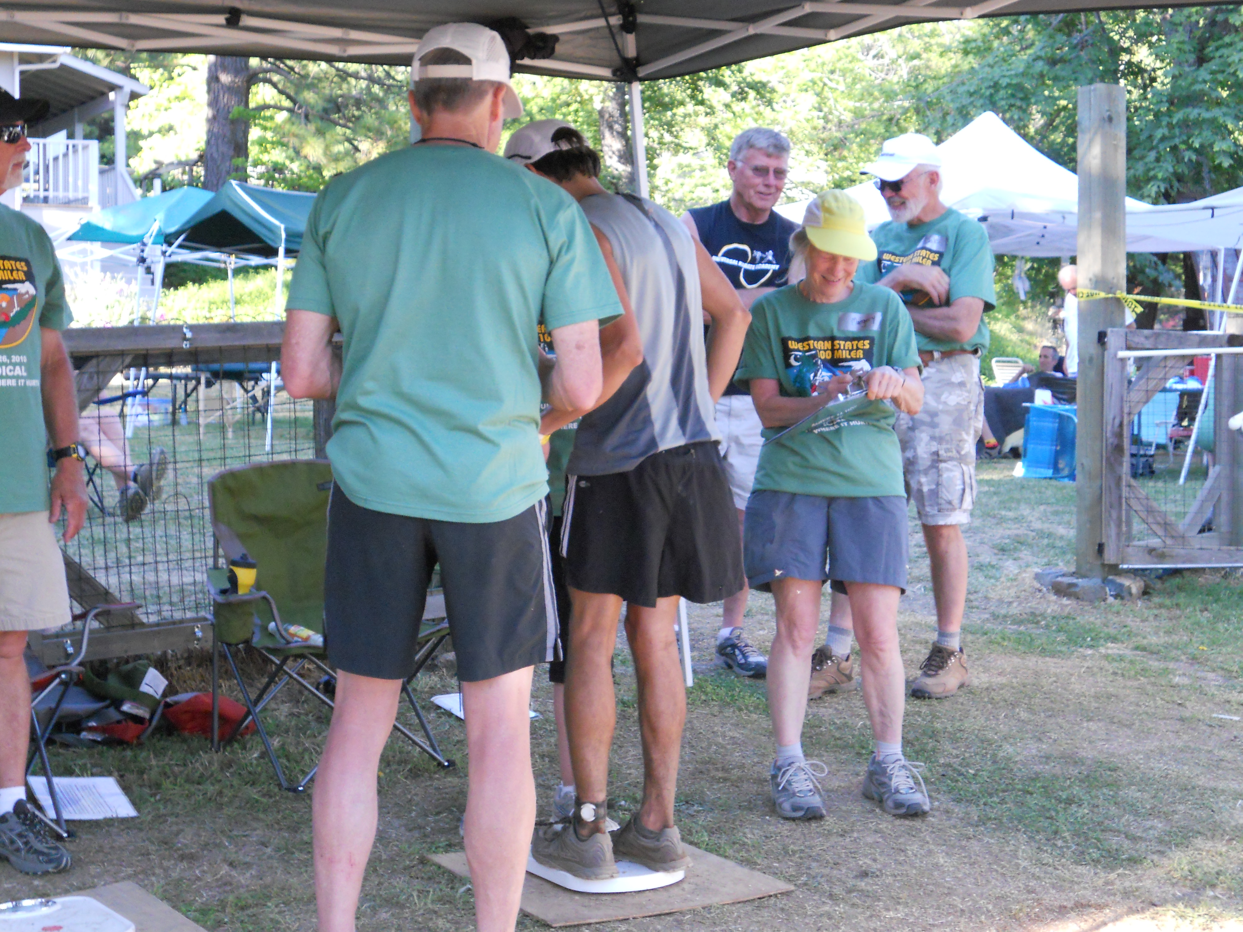 Western States Endurance Run